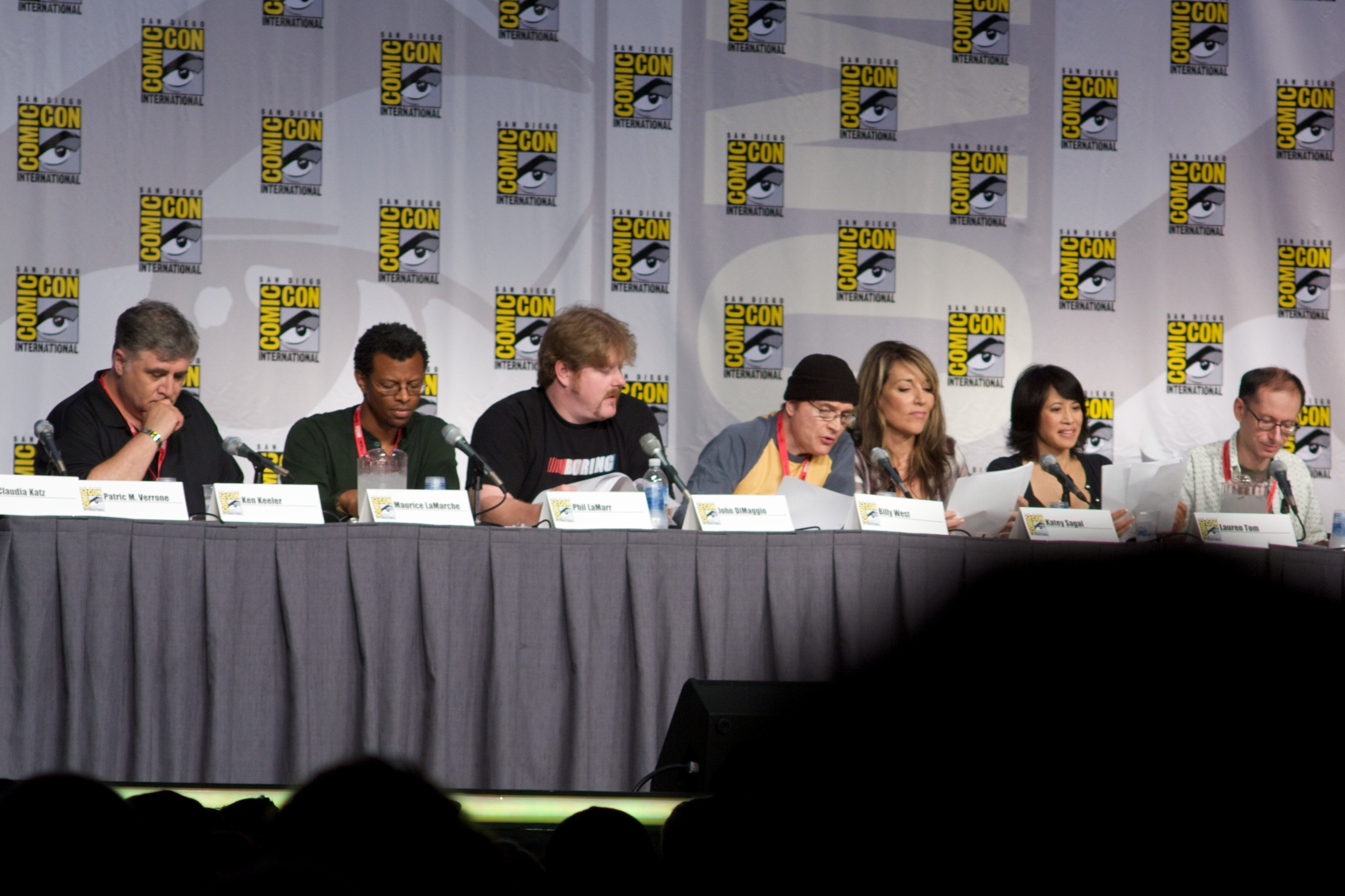 "Futurama" Panel. Actors Maurice LaMarche, Phil LaMarr, John DiMaggio, Billy West, Katey Sagal, Lauren Tom and developer David X. Cohen at San Diego 2010 Comic-Con International